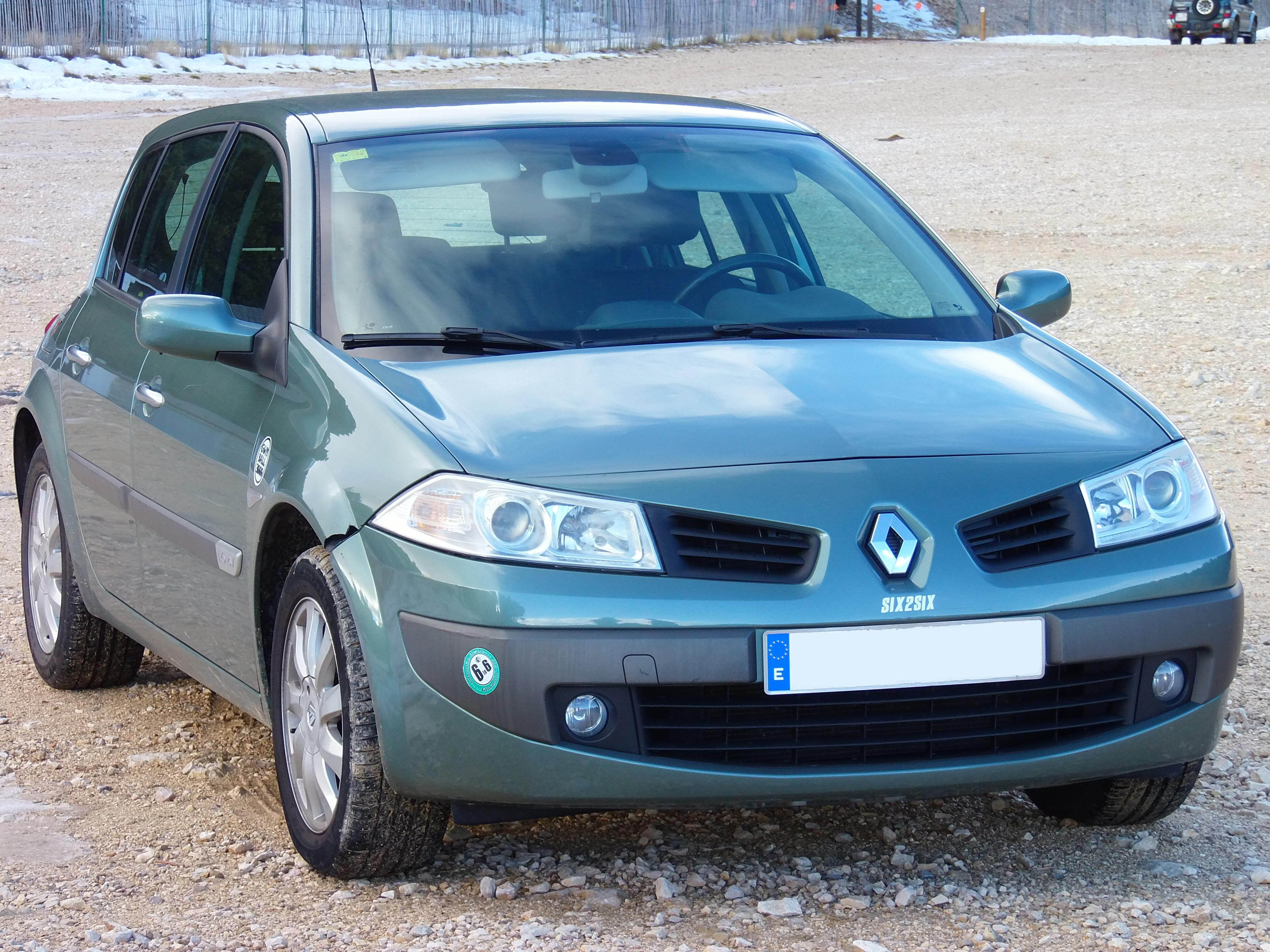 Renault Mégane 2006 Front